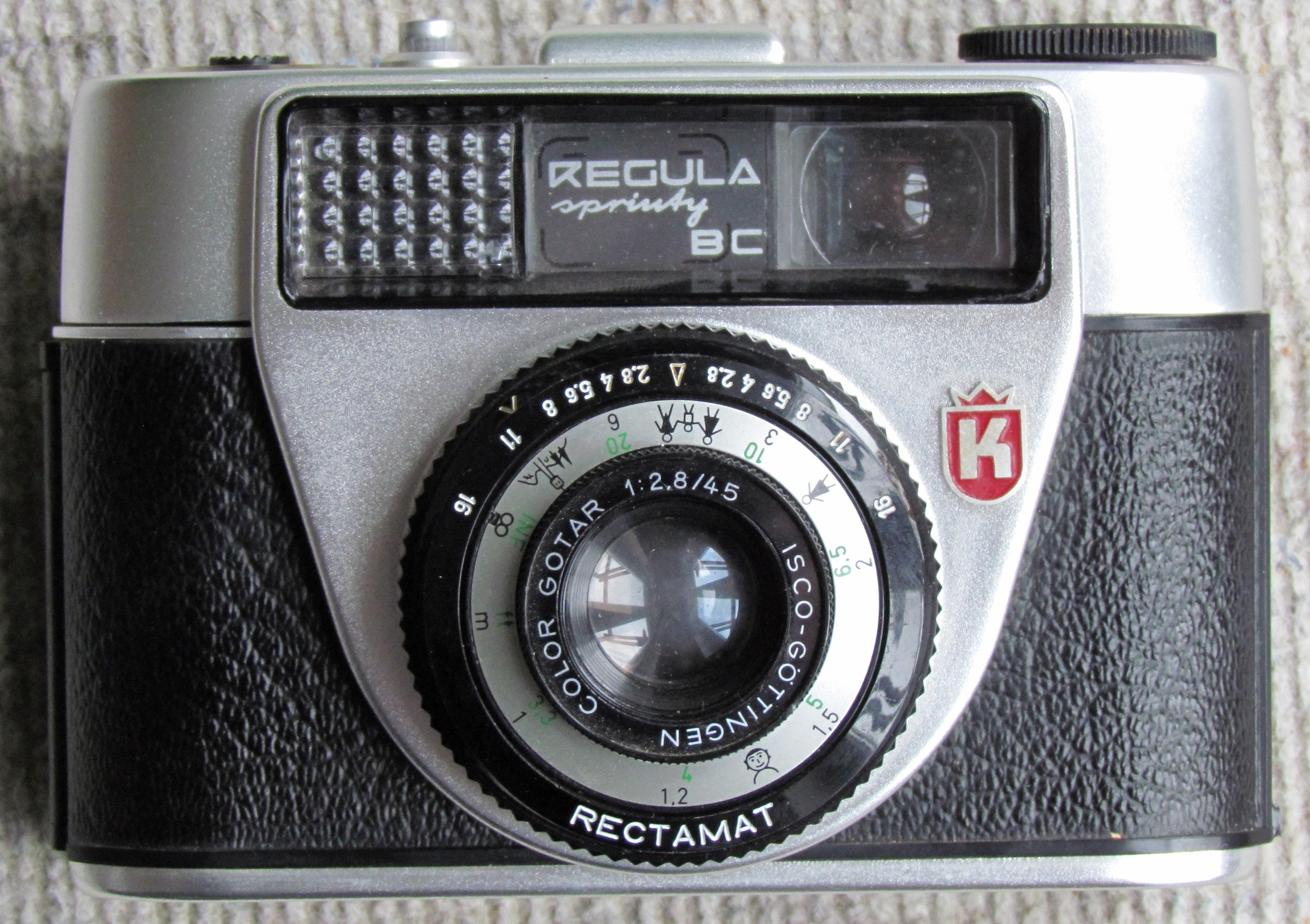 Regula_Sprinty_BC_Front